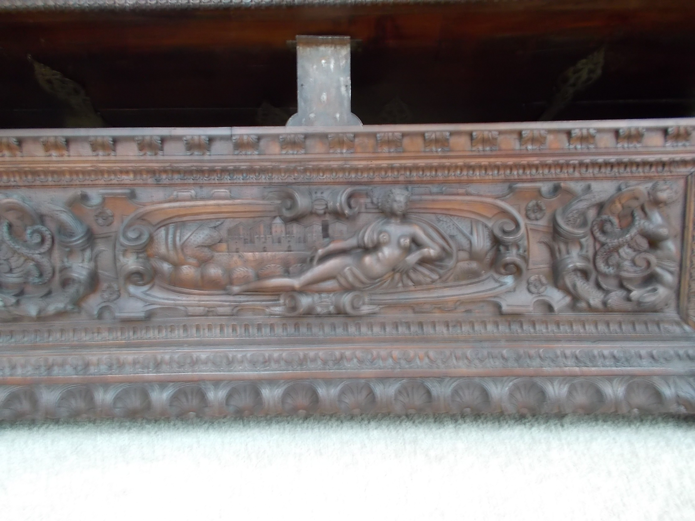 Walnut hope chest. (Cassone) Nymph carving. 1570 - 1600, in Northern Italy. -. Budapest Museum of Applied Arts. - Üllői Avenue, Hőgyes Endre Street, Kinizsi Pál Street, Budapest District IX , Hungary